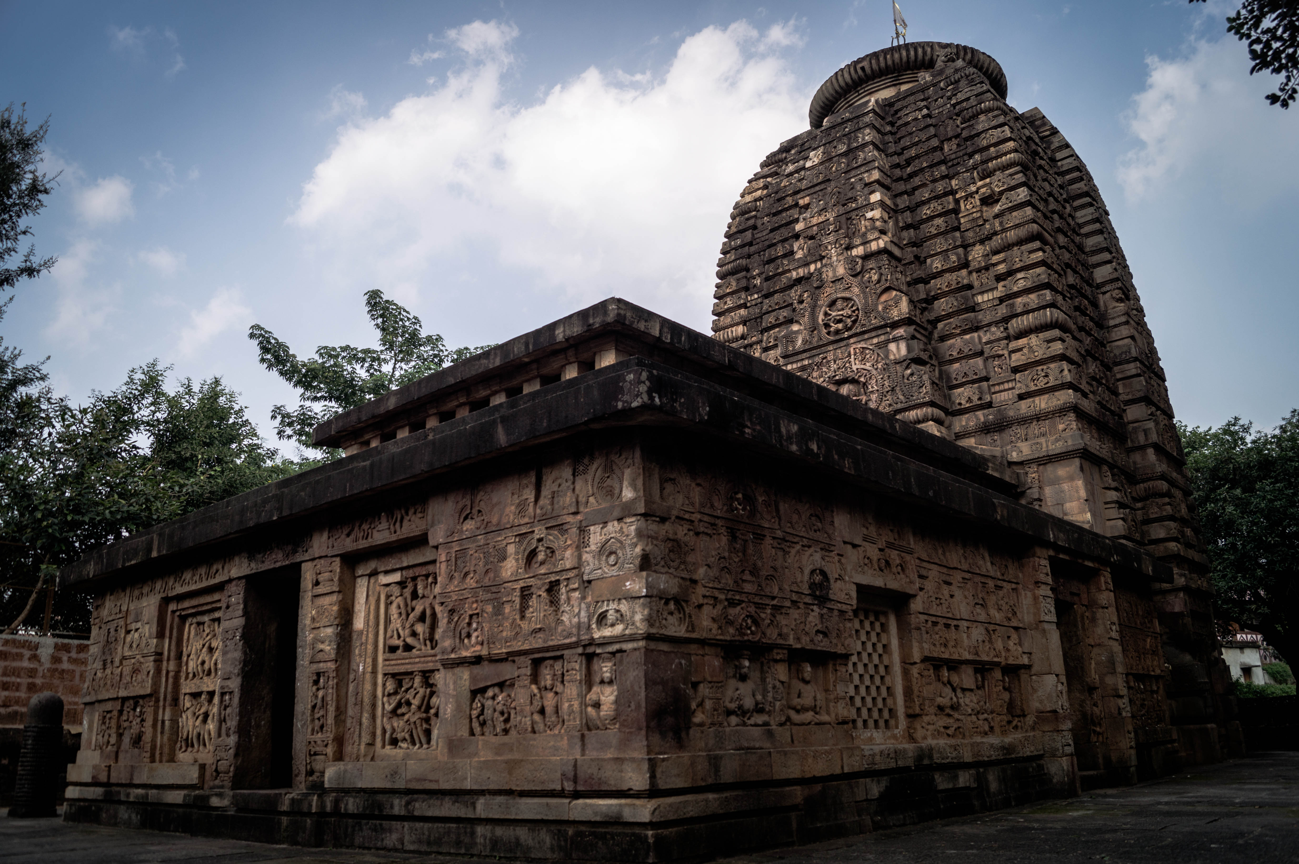 Ant's eye view of Parsurameswara temple